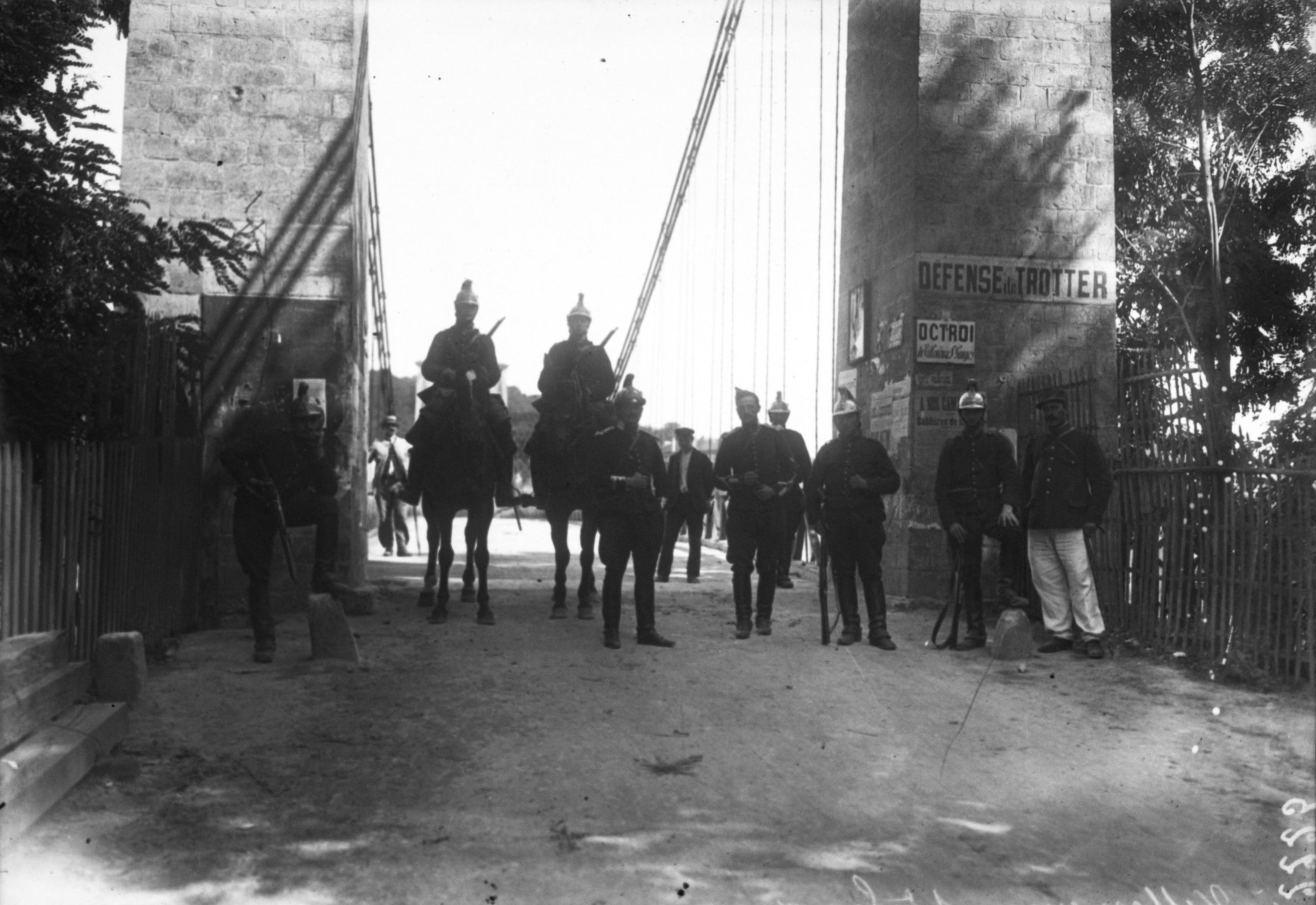 Press photography of military (dragoons) at the Draveil (France) during the 1908 strikes. Originally owned by Rol Agency, which gave it for free use to Gallica (Bibliothèque nationale de France).